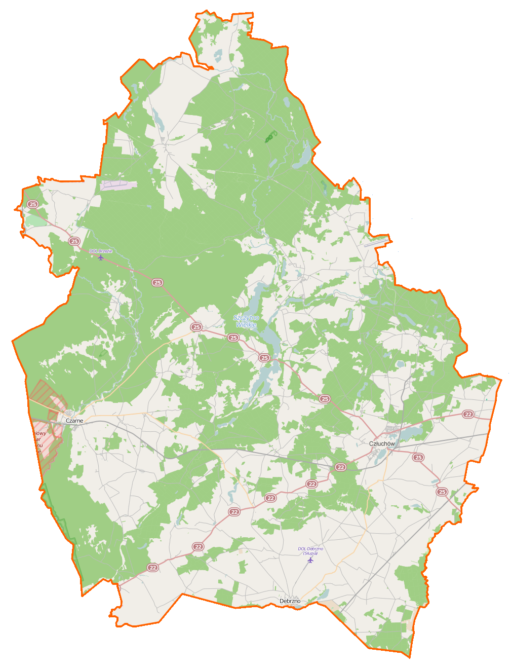 Map of Powiat człuchowski, Poland This map of Powiat człuchowski was created from OpenStreetMap project data, collected by the community. This map may be incomplete, and may contain errors. Don't rely solely on it for navigation.